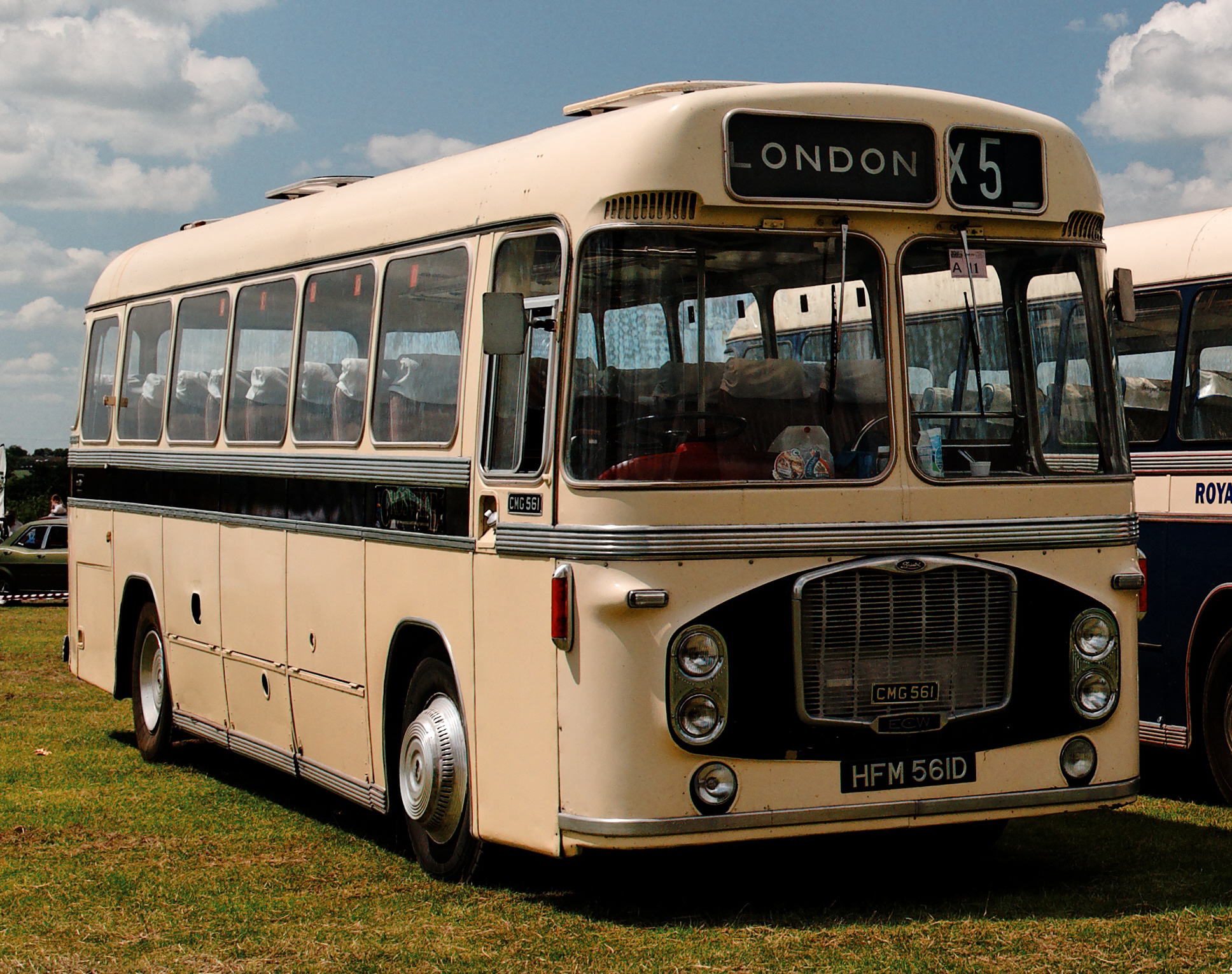 Crosville coach CWG561 (HFM 561D), pictured at the 2009 Luton Festival of Transport.